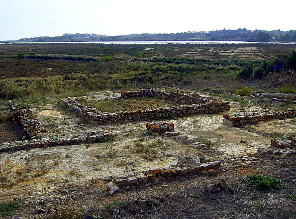 Roman location/station of "Quinta da Abicada" near Mexilhoeira Grande, parish of Portimão. In the background the "Ria de Alvor".